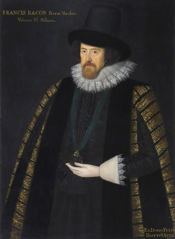 Portrait of Sir Francis Bacon (1561–1626), 1st Baron Verulam and Viscount St Albans.